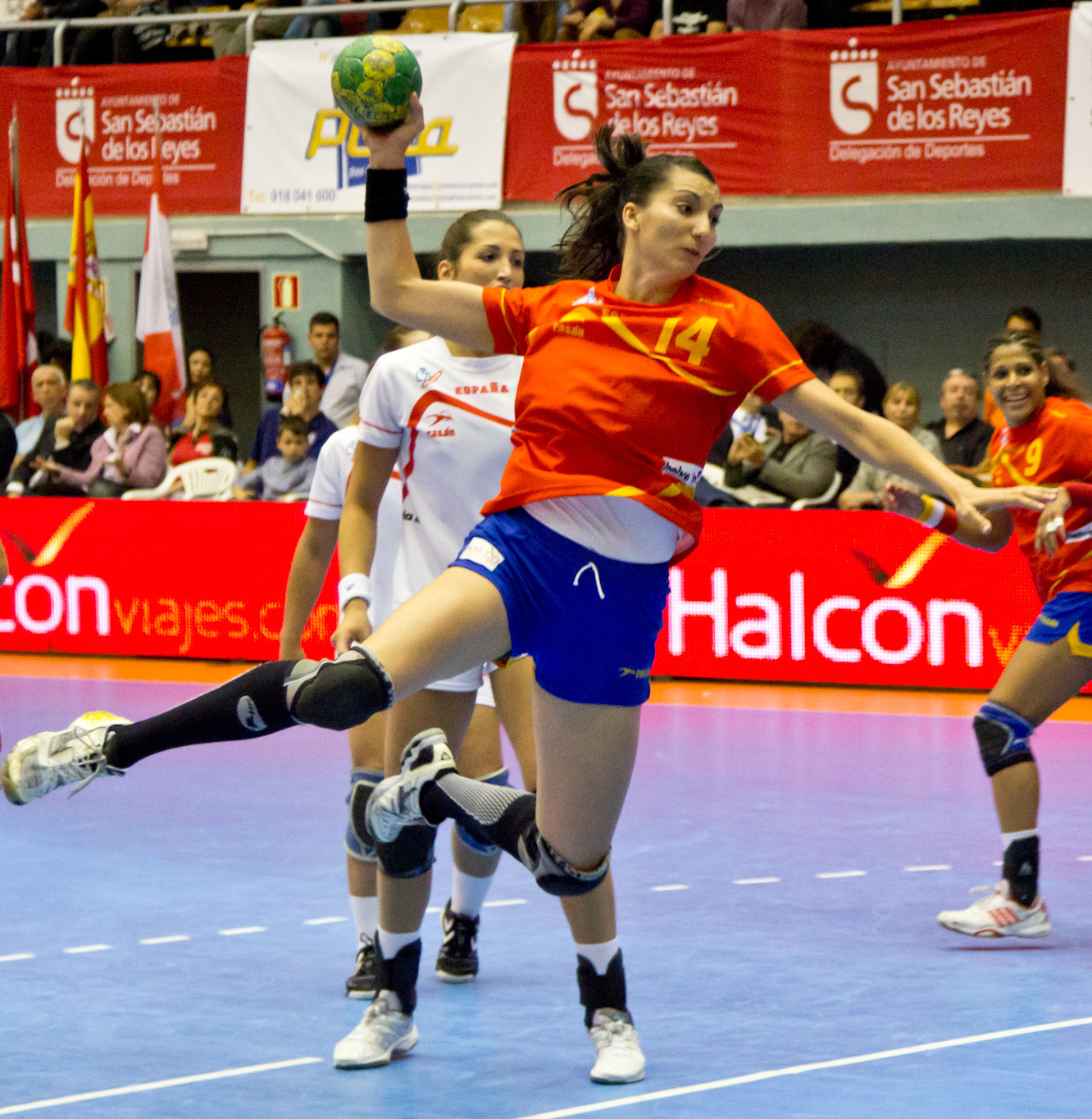 Handball All Star Game 2013, held in San Sebastián de los Reyes, Madrid, Spain.